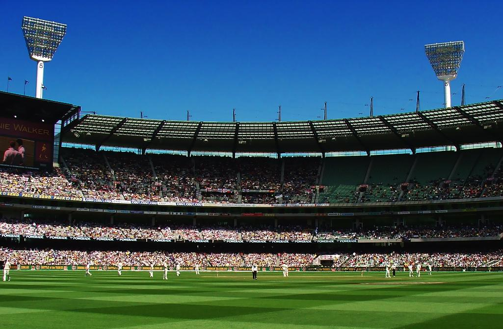 Melbourne Cricket Ground stands